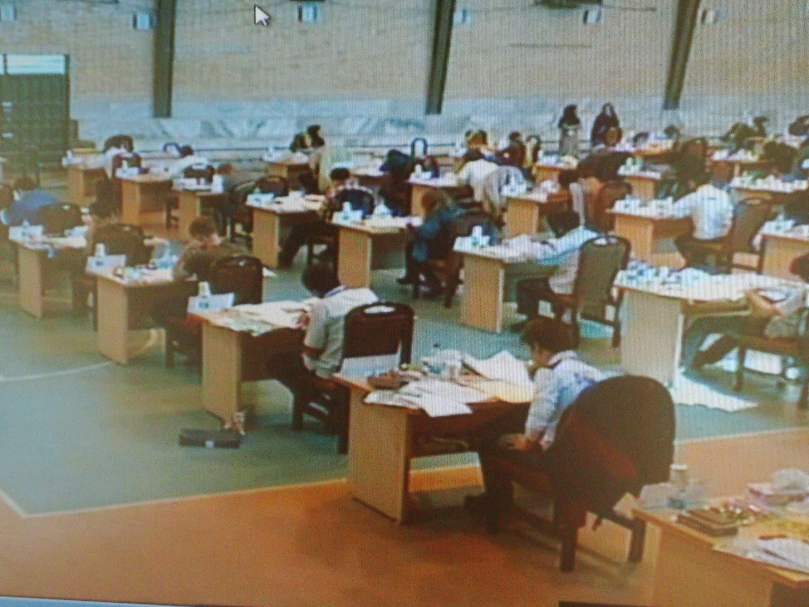 Theoretical Exam at IOAA 2009.